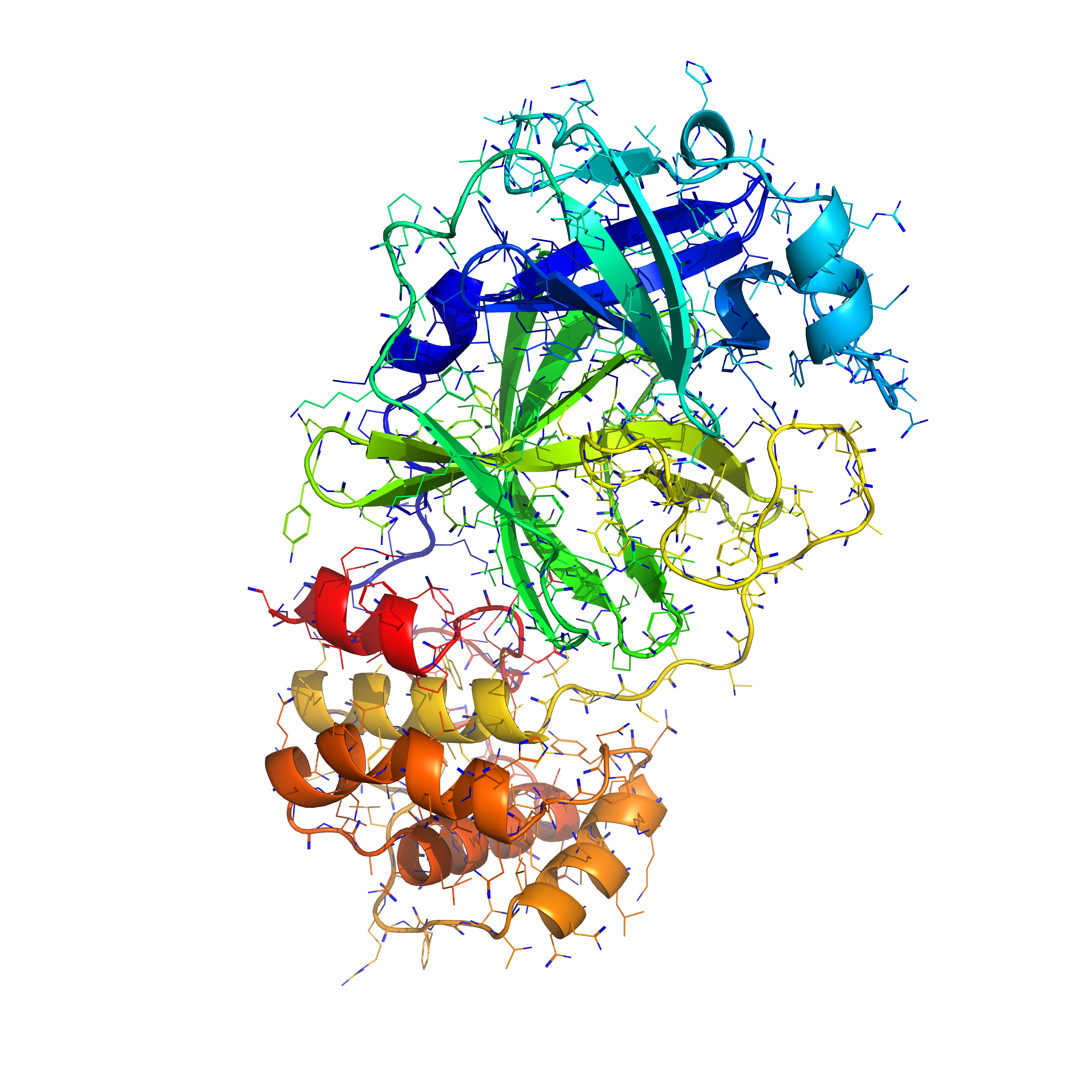 Phyre2 model ribbion diagramm rendering of the 2019-nCoV M(pro) protease as a target for antiviral drugs.